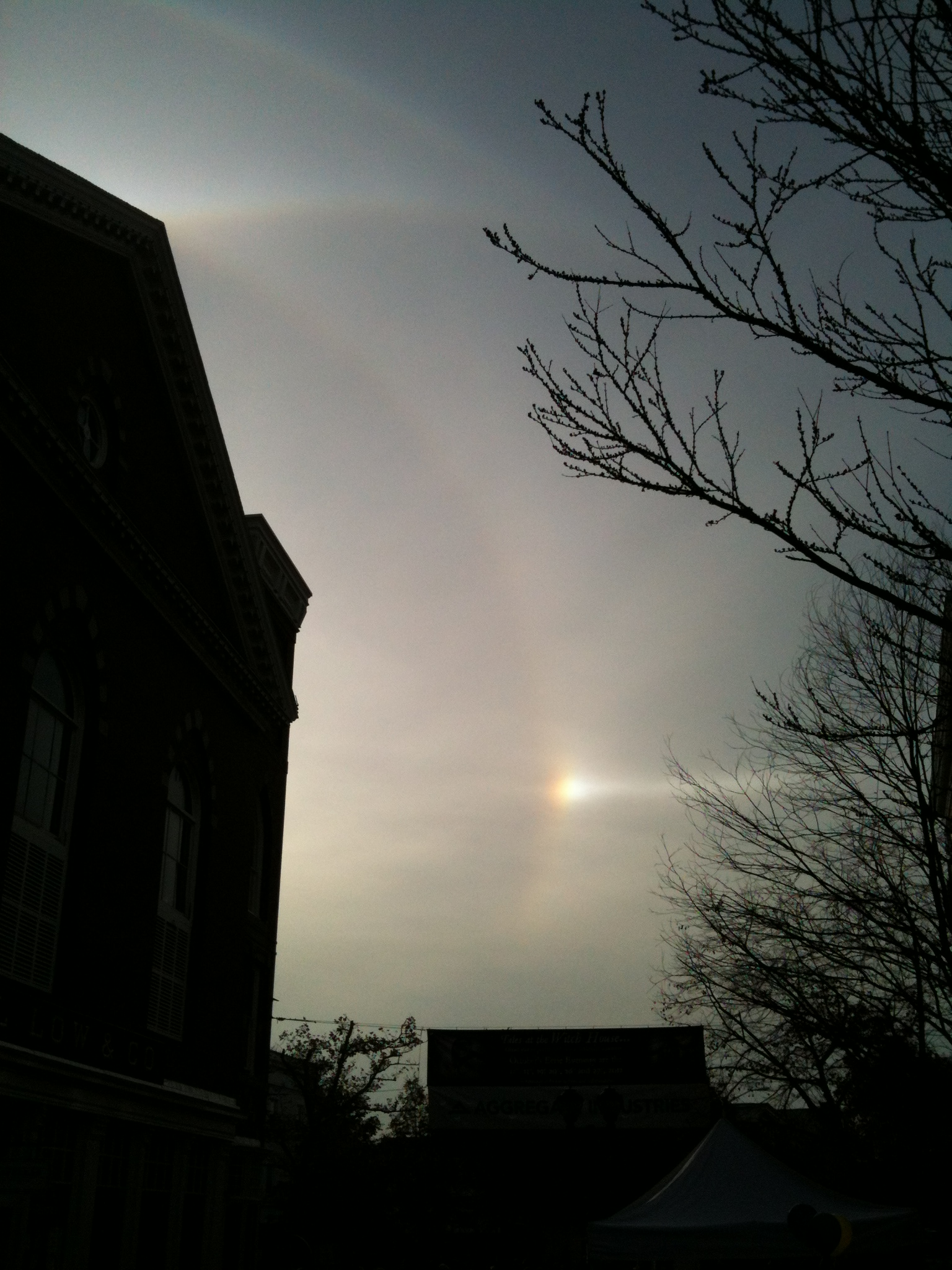 Parry arc, upper tangent arc, 22° halo, and parhelion (sundog) in Salem, Massachusetts, Oct 27, 2012. The Daniel Low building is in the foreground.